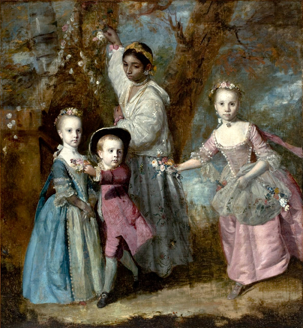 Elisabeth, Sarah and Edward, Children of Edward Holden Cruttenden